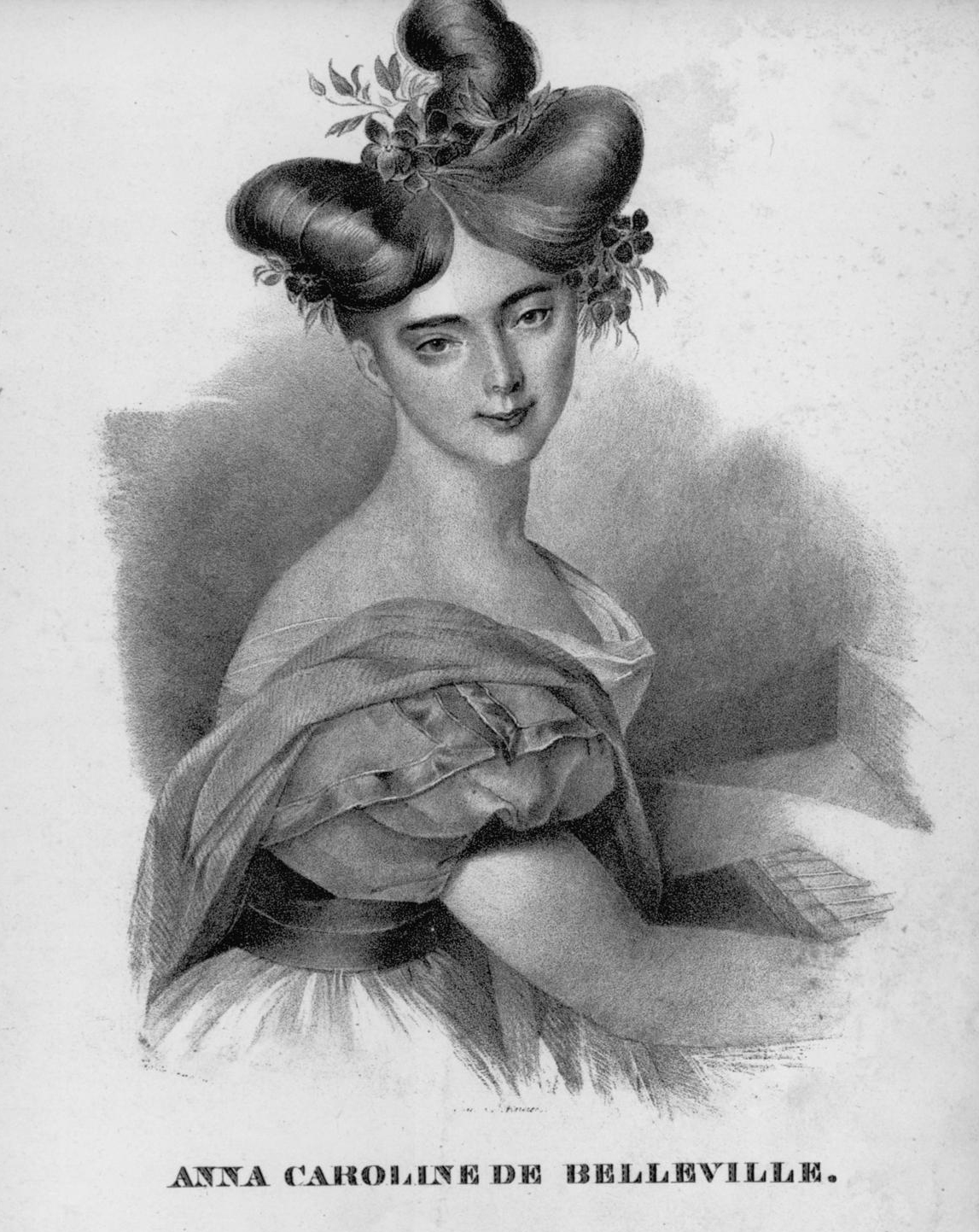 Anna Caroline Oury (1808-1880)